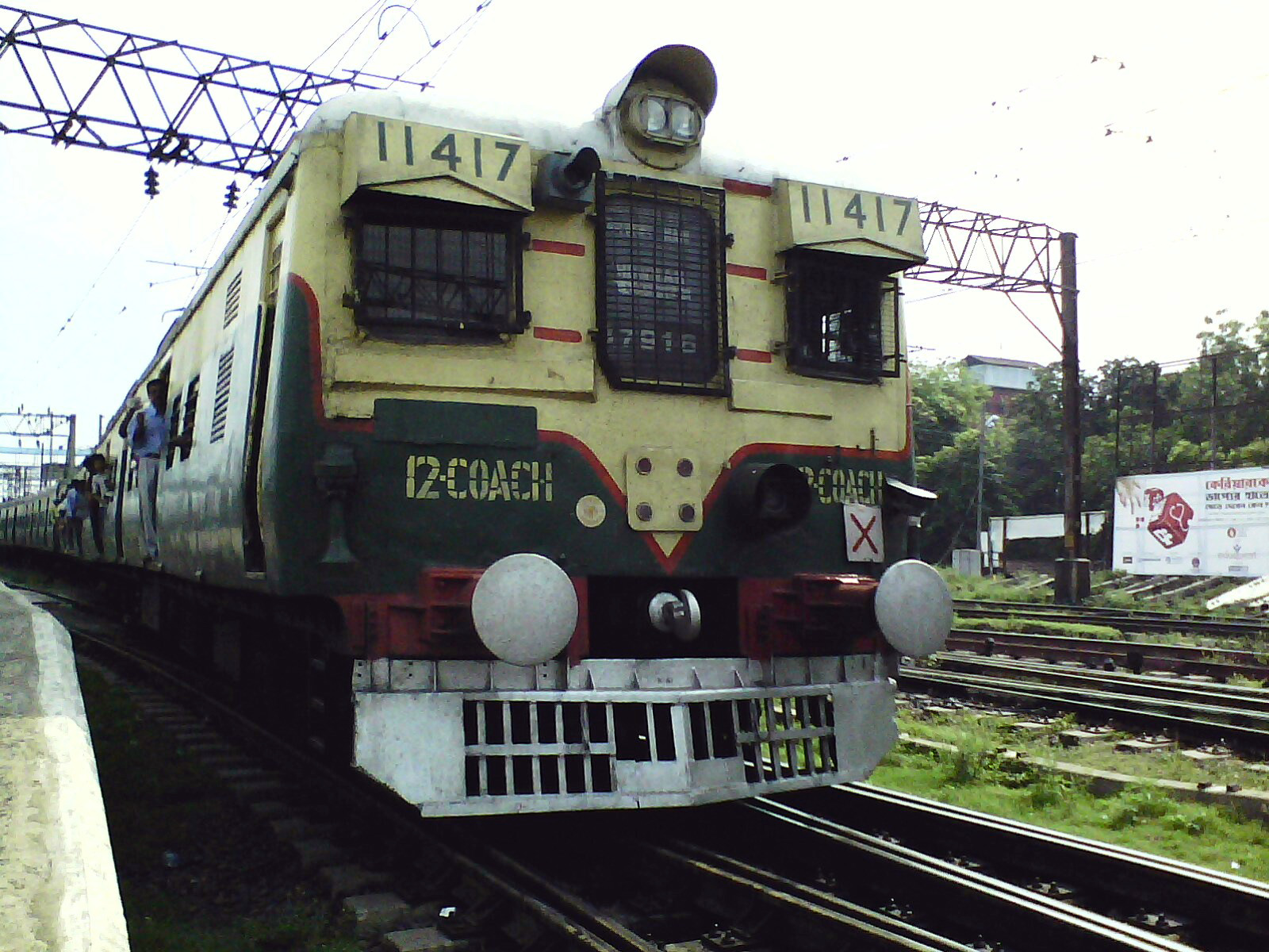 A Howrah bound local train leaving Bandel station.